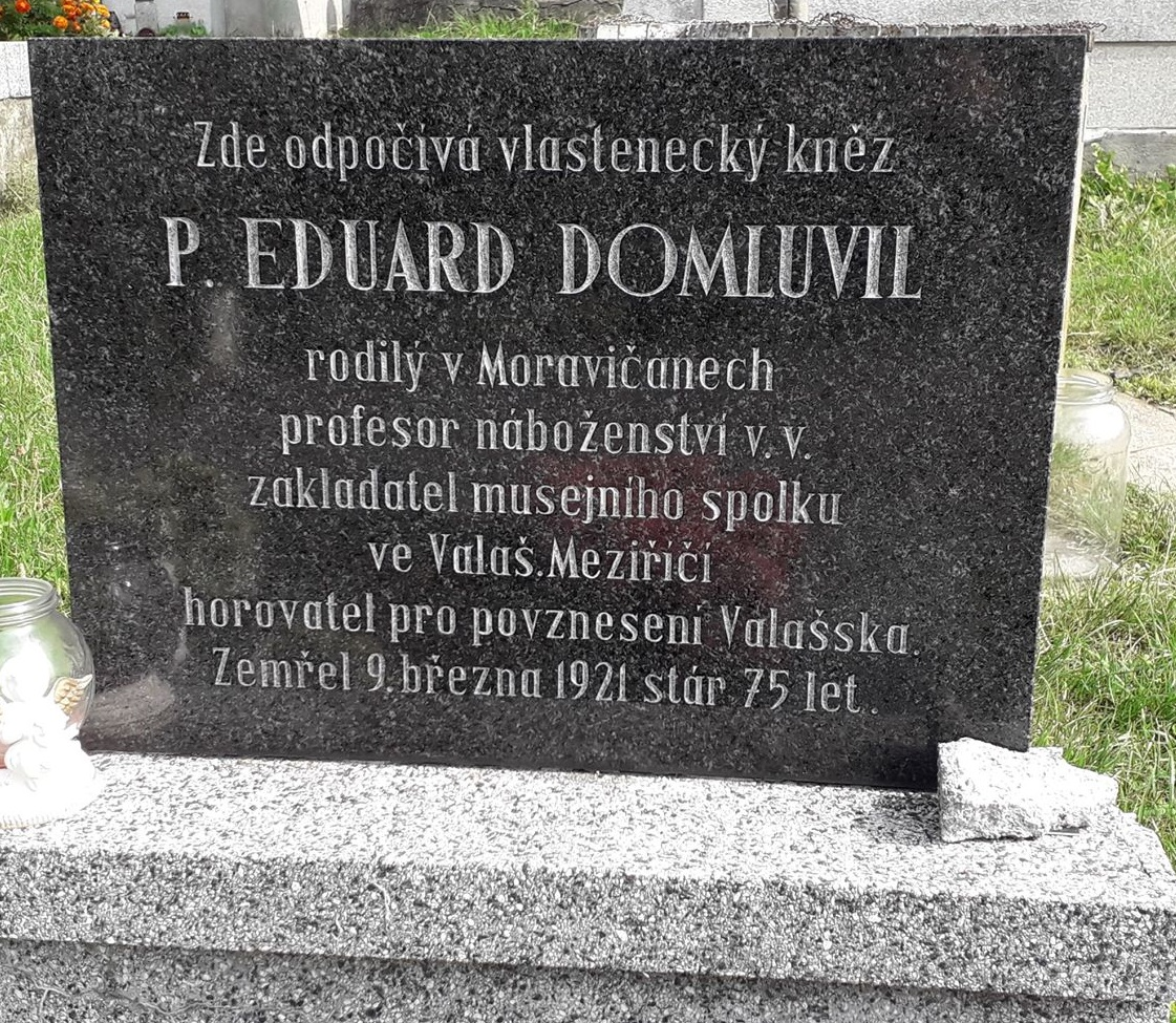 Náhrobek Eduarda Domluvila